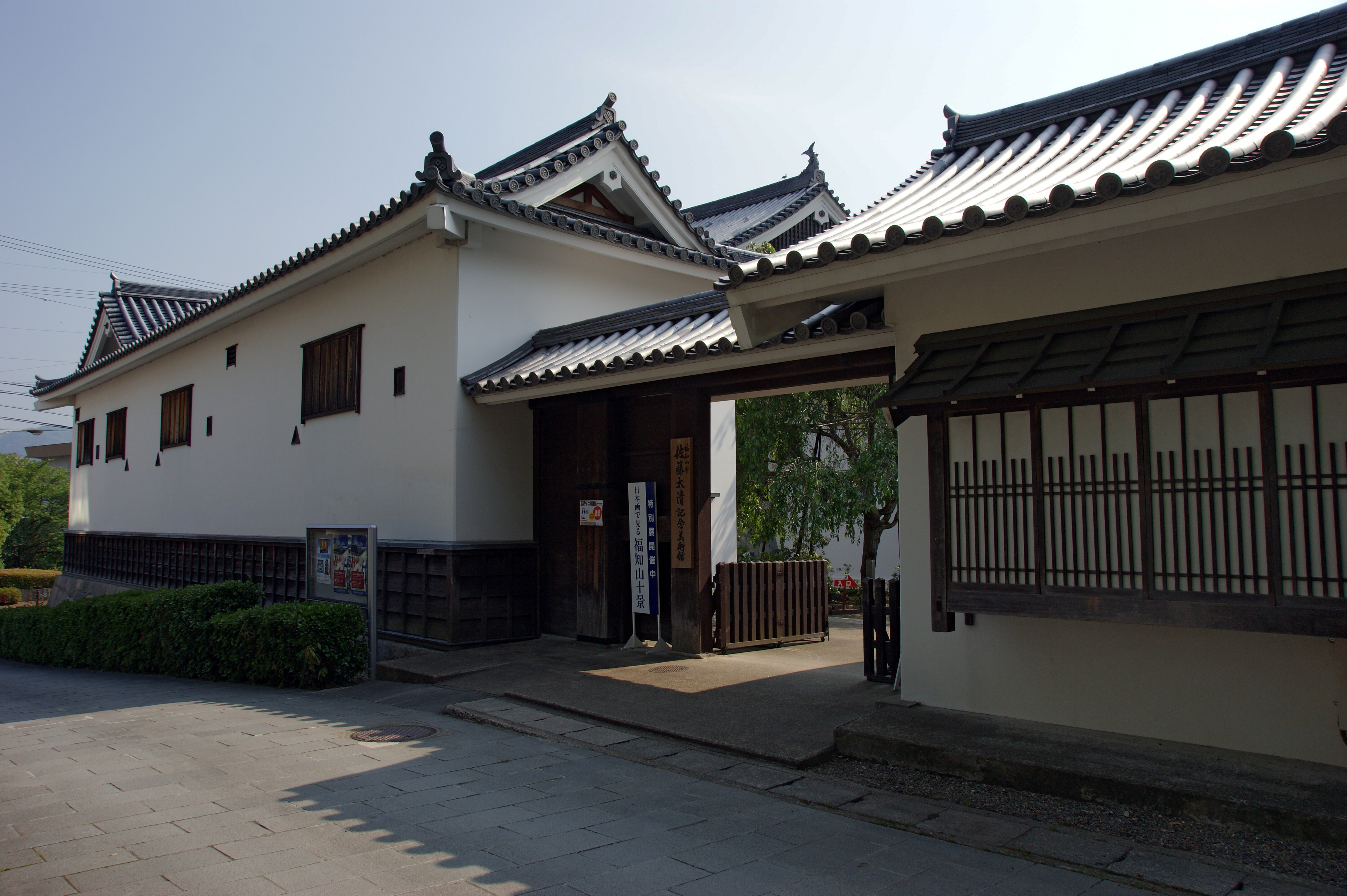 Taisei Sato Memorial Art Museum in Fukuchiyama, Kyoto prefecture, Japan